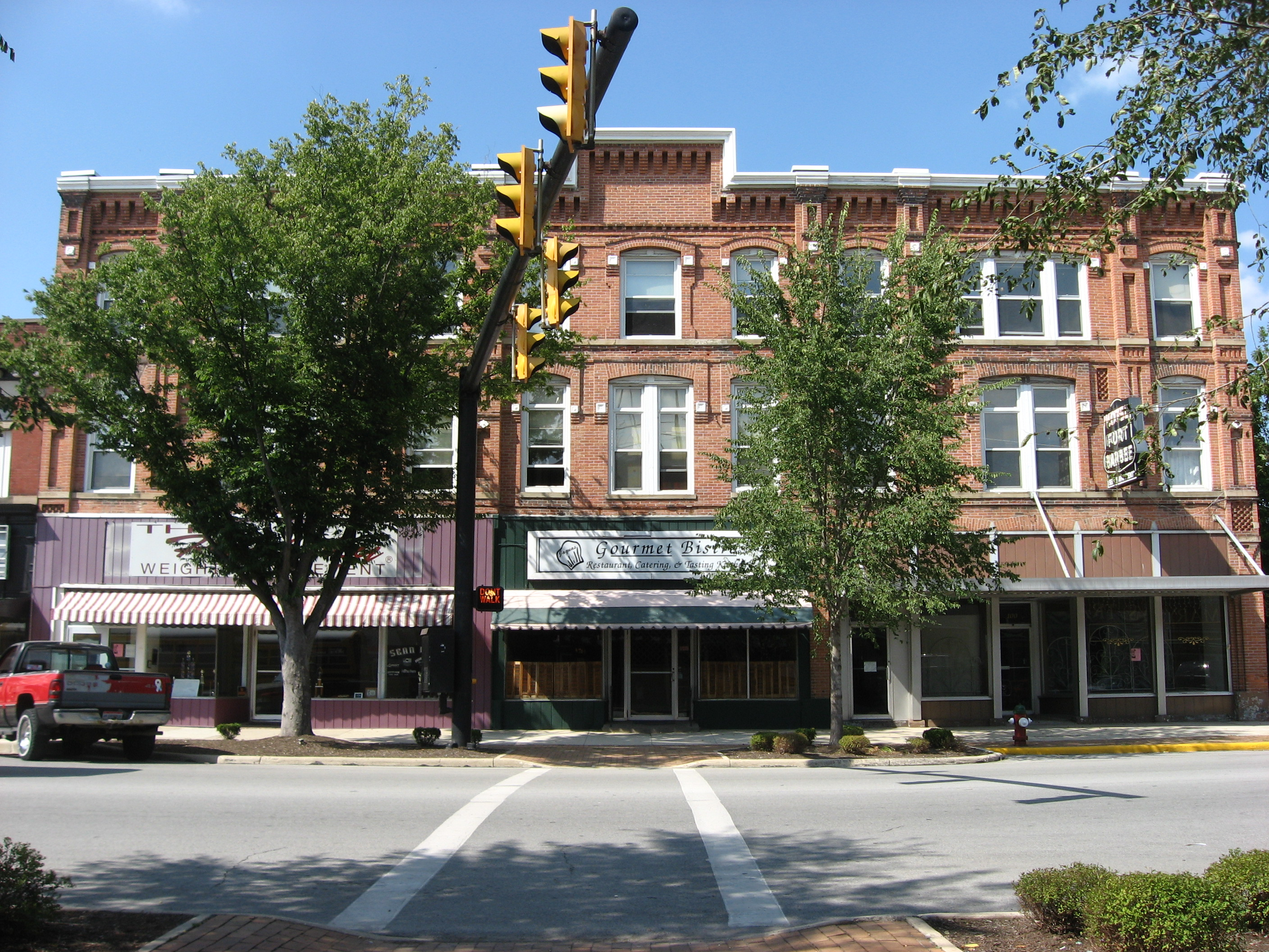 Front of The Fountain Hotel, located at 100-110 W. Spring Street (State Routes 29/66) in downtown St. Marys, Ohio, United States. Built in 1889, the hotel (now a restaurant) is listed on the National Register of Historic Places.